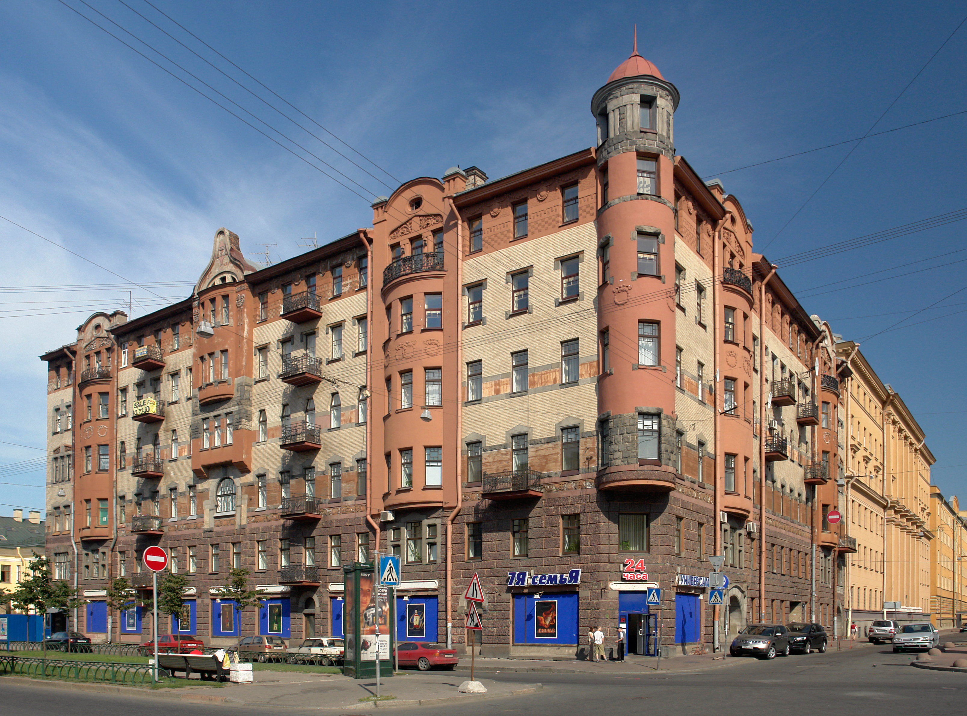 House in St. Petersburg